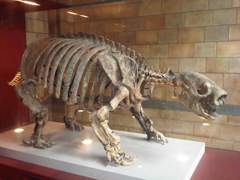 The skeletal mount of a Glossotherium robustum at the Natural History Museum in London, England.